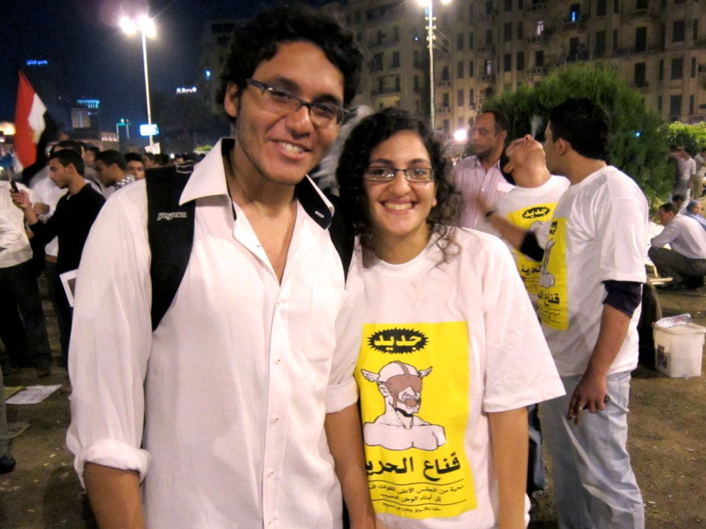 Noor Ayman & Mona Seif